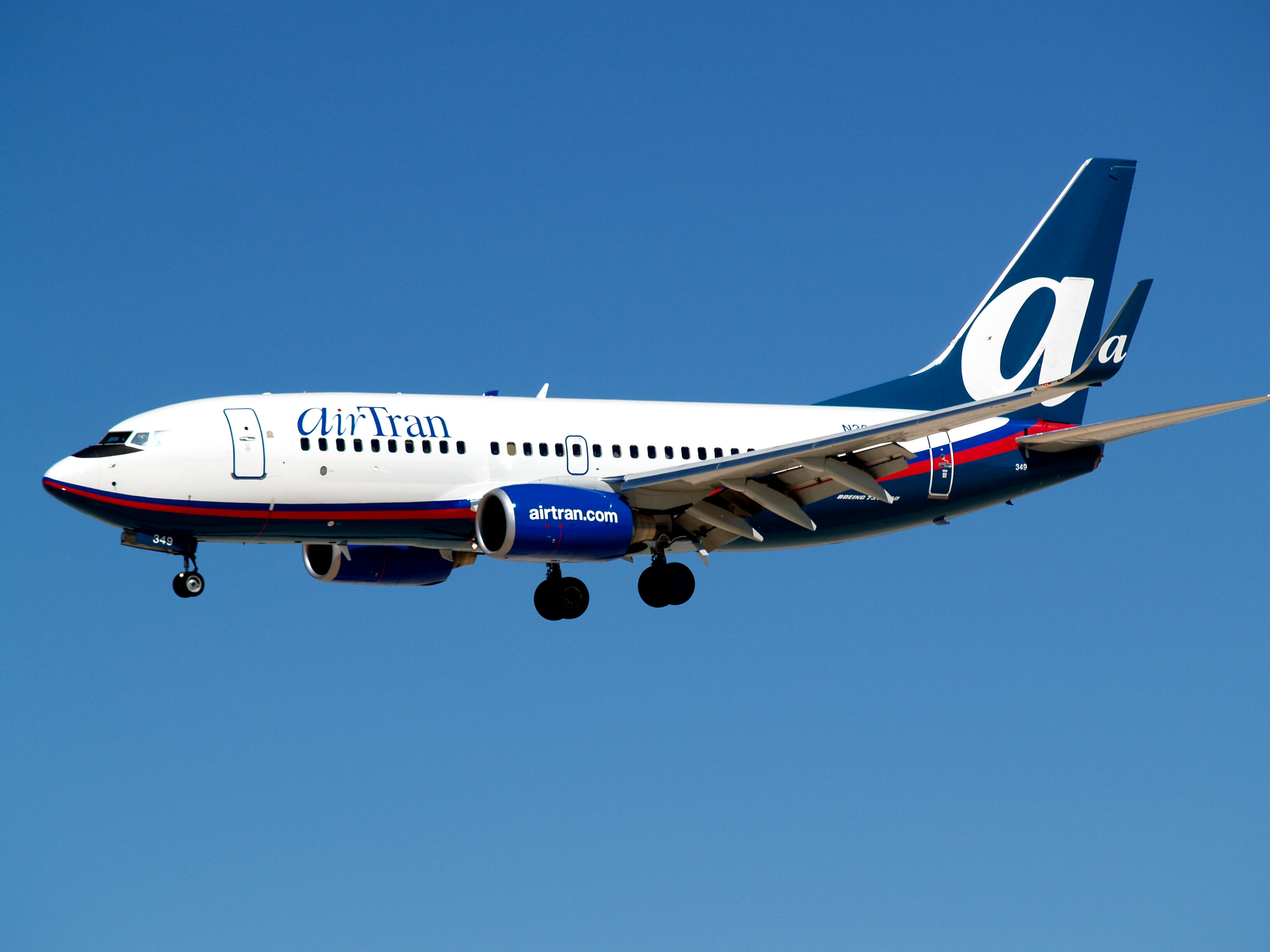 AirTran Airways Boeing 737